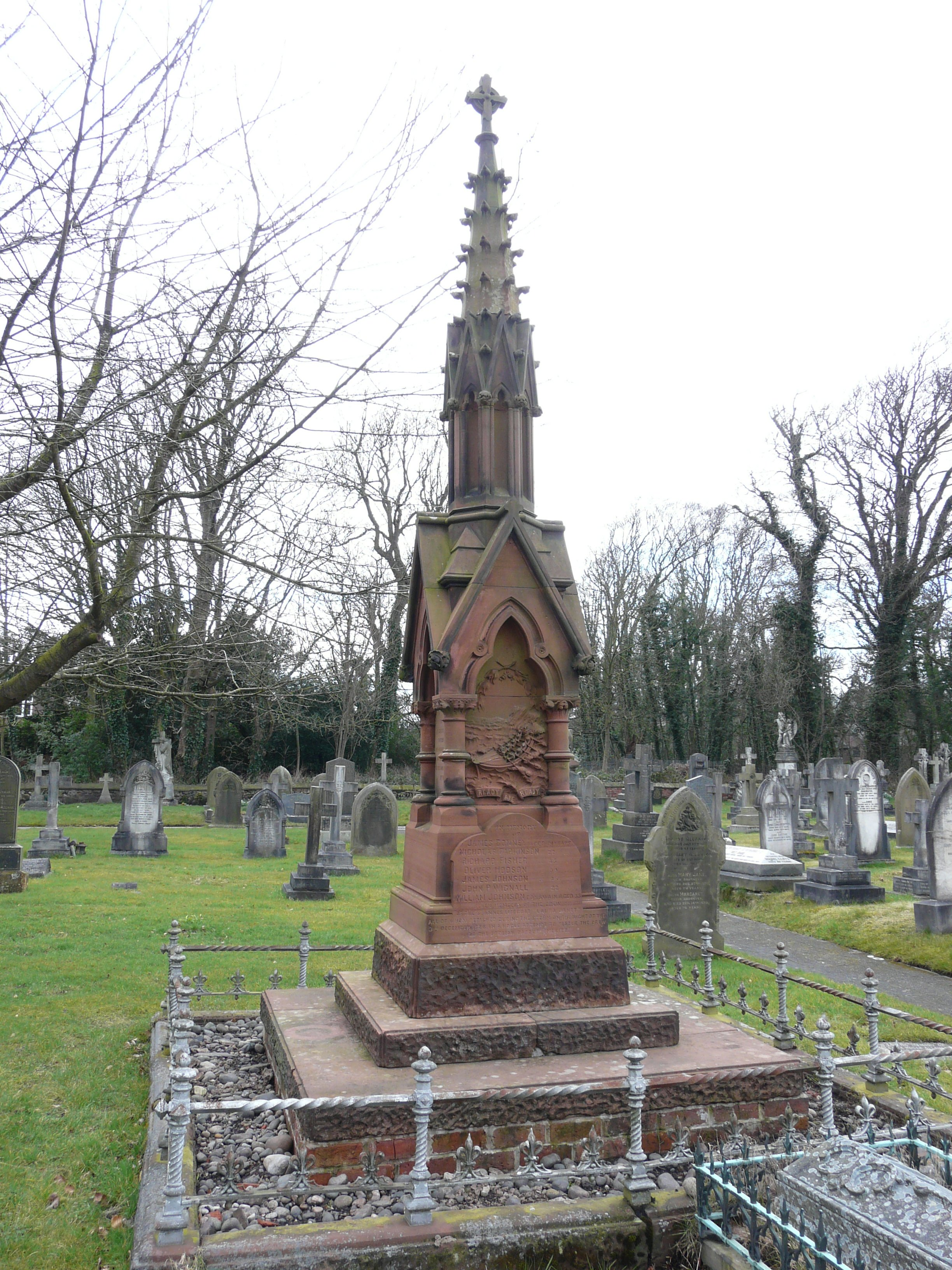 Memorial at St Cuthbert's Church, Lytham, Lancashire, UK to the loss of the RNLI lifeboat "Laura Janet" 9 December 1886.